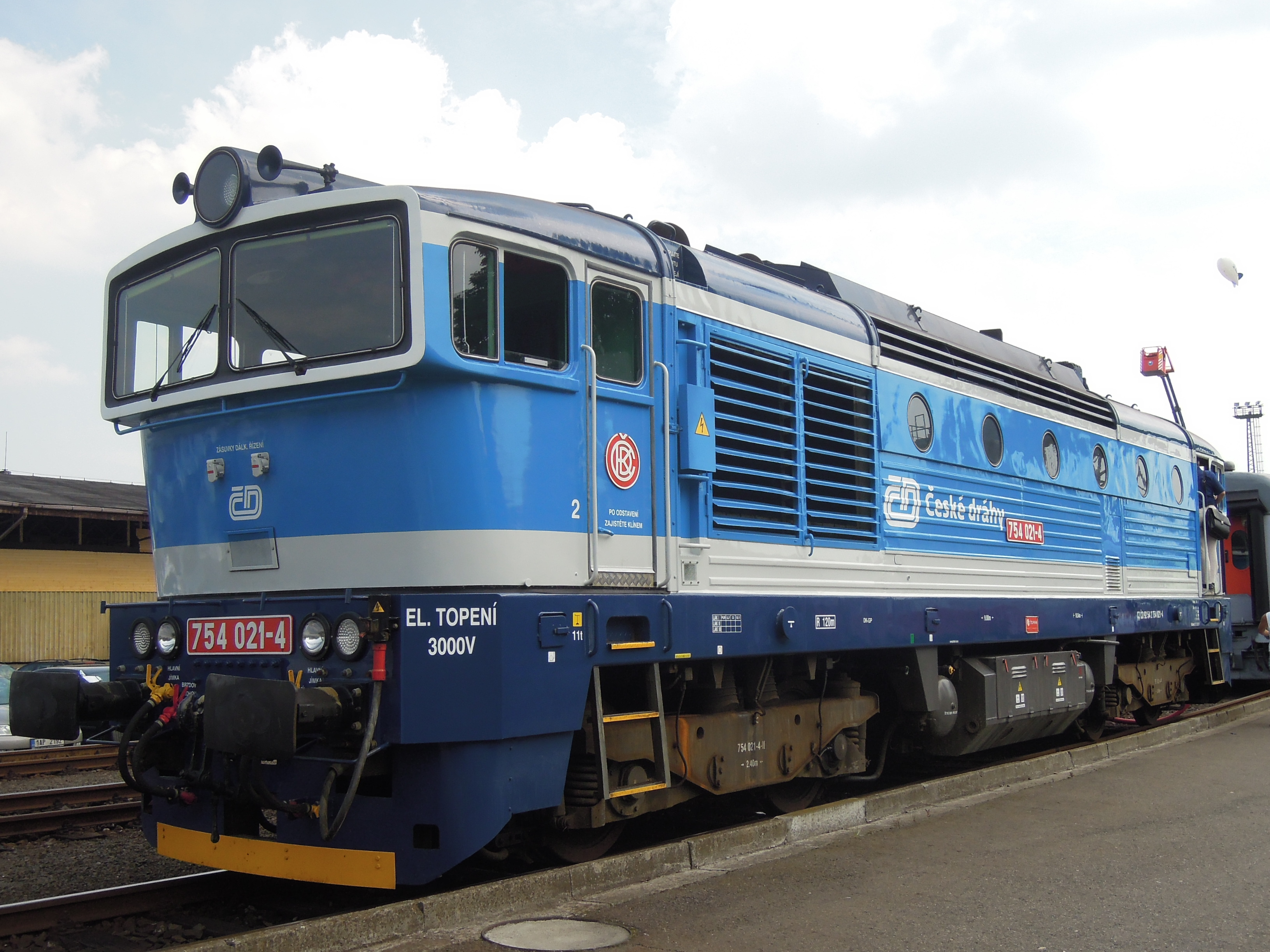 Diesel multiple locomotive class 754 of České dráhy at the Czech Raildays 2012 trade fair in Ostrava, Czech Republic